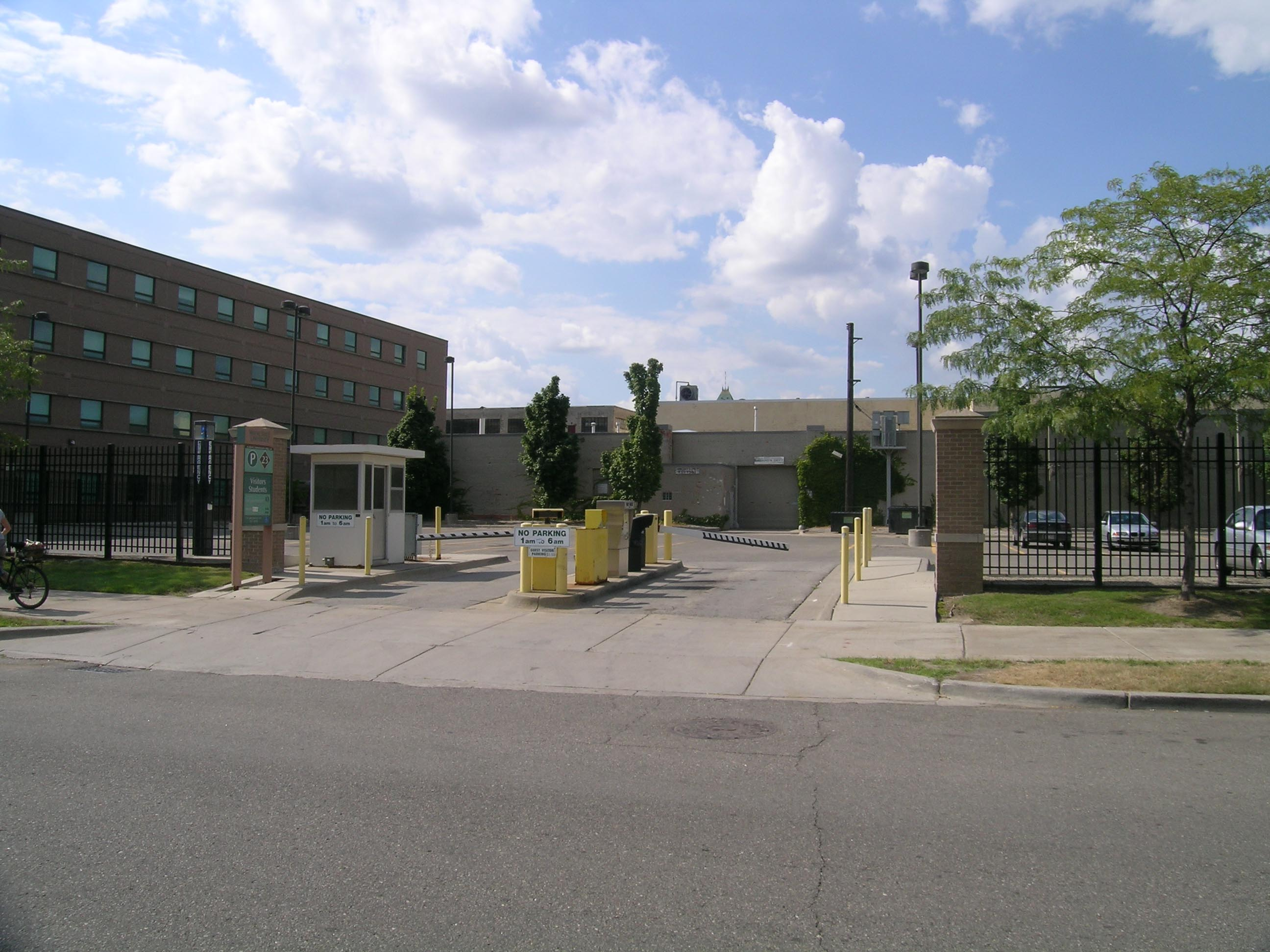 Site where Thomas S. Sprague House once stood in Detroit